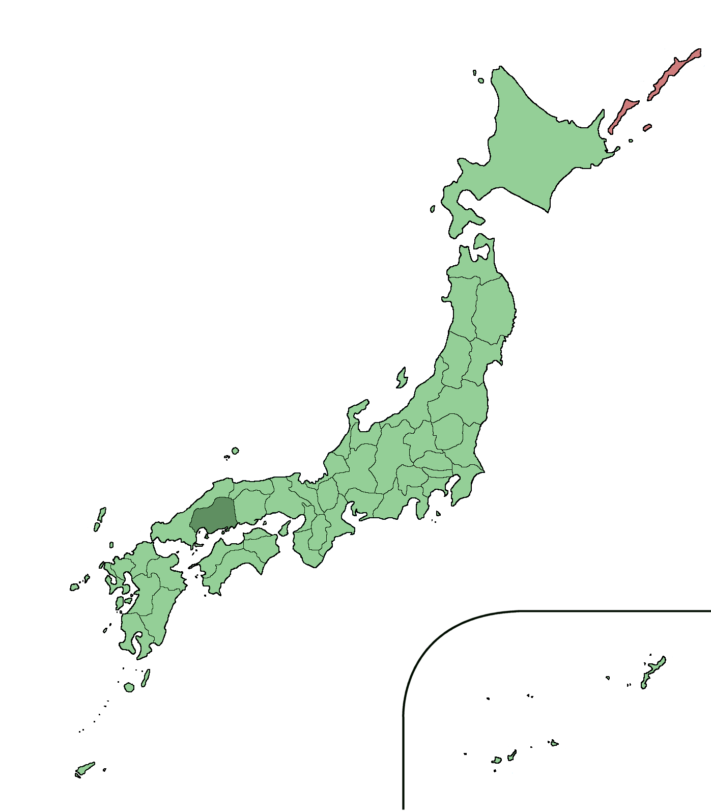 Large size map of Japan with Hiroshima highlighted, self made but originally based on a japanese mapbook.